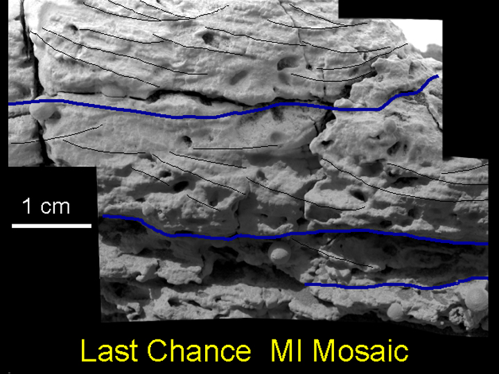 Interpretations of cross-lamination patterns presented as clues to this martian rock's (nicknamed "Last Chance") origin under flowing water are marked on images taken by the microscopic imager on NASA's Opportunity rover. The microscopic view is a mosaic of some of the 152 microscopic imager frames of Last Chance that Opportunity took on sols 39 and 40 (March 3 and 4, 2004). This view shows cross-lamination expressed by lines that trend downward from left to right, traced with black lines in the interpretive overlay. These cross-lamination lines are consistent with dipping planes that would have formed surfaces on the down-current side of migrating ripples. Interpretive blue lines indicate boundaries between possible sets of cross-laminae.